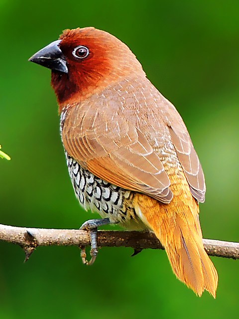 Spotted Munia (Lonchura punctulata) in Mangaon, Raigad, Maharashtra, India.